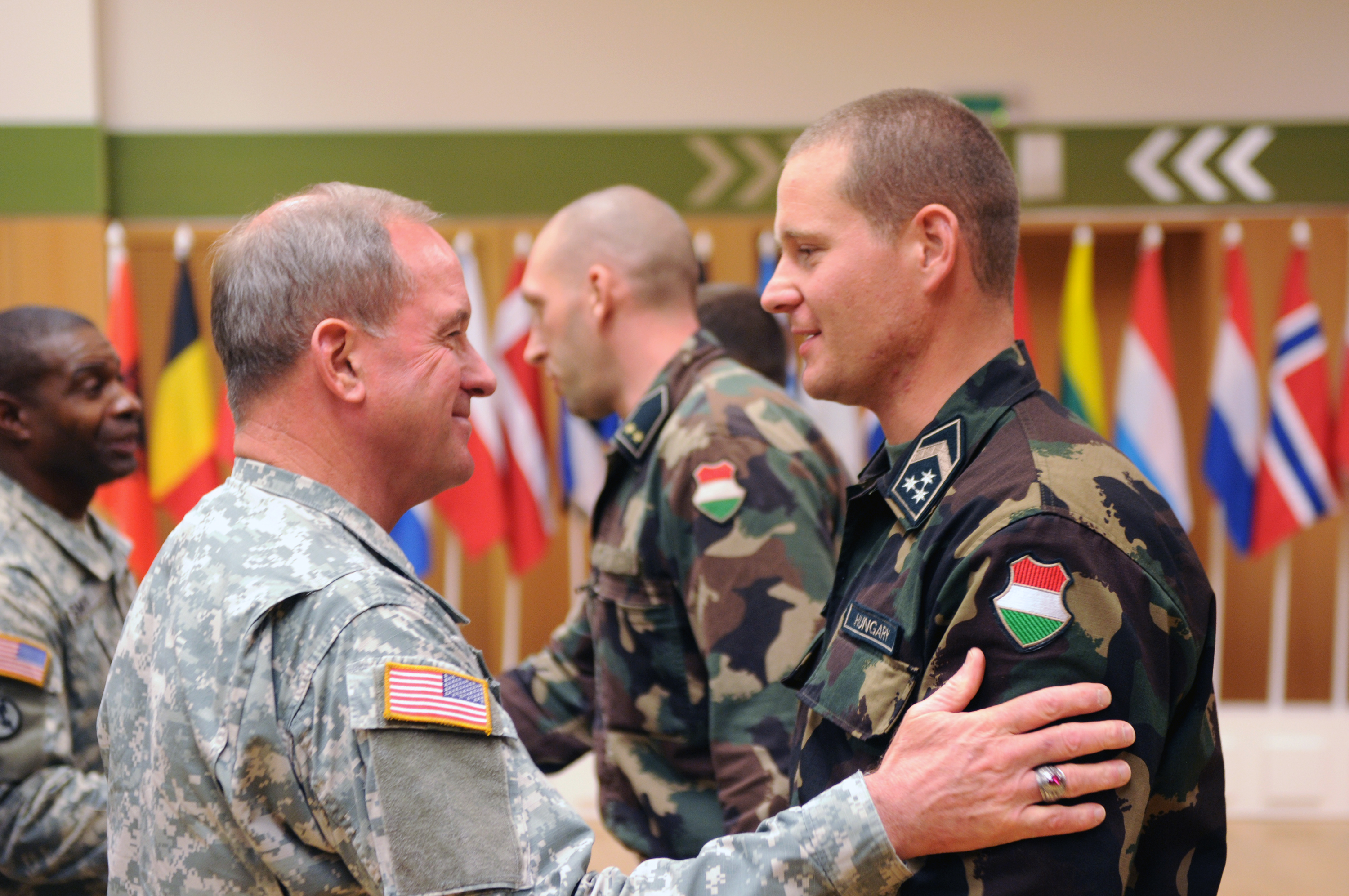 Army. Maj. Gen. Gregory Wayt, the adjutant general of the Ohio National Guard, awards the Ohio Commendation Medal to Hungarian Defense Forces soldiers who served in a joint unit with Ohio National Guard members in Afghanistan at Tata, Hungary, on Sept. 15, 2010. A delegation of Ohio National Guard leaders was in Hungary for National Guard State Partnership Program activities.